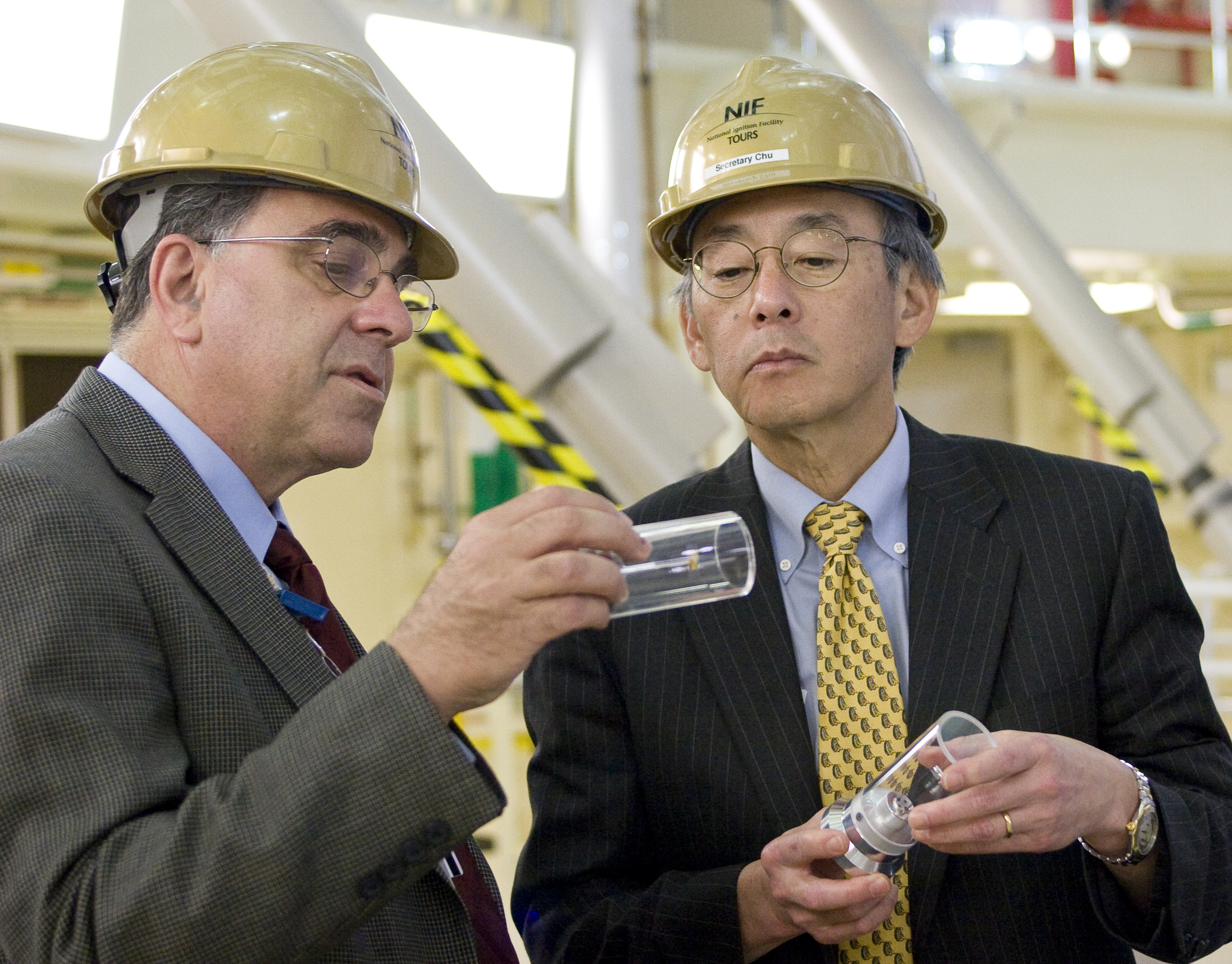 Ed Moses, Principal Associate Director of the National Ignition Facility at Lawrence Livermore National Laboratory (left), shows a model of an ignition target to Steven Chu, Secretary of the U.S. Department of Energy.